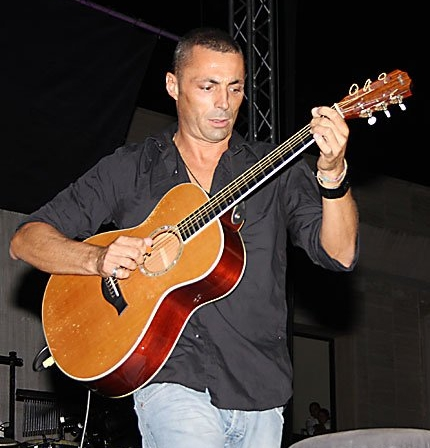 Alex Britti